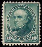 US stamp honoring Daniel Webster